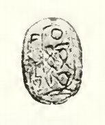 Picture of a scarab of pharaoh Wahibra (Ibiaw), now in the Petrie Museum (UC 11572). Reign of Wahibra Ibiaw, 13th dynasty, Second Intermediate Period.